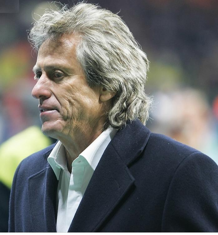 Jesus coaching Benfica against FC Spartak Moscow in an UEFA Champions League game in Moscow.